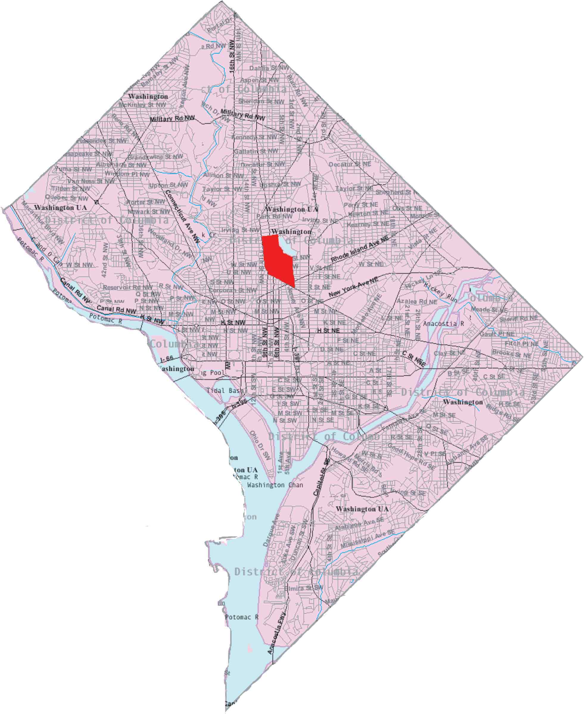 This image is a modified version of a self-generated reference map from the U.S. Census Bureau's American Factfinder at by Wikipedia user Msclguru.